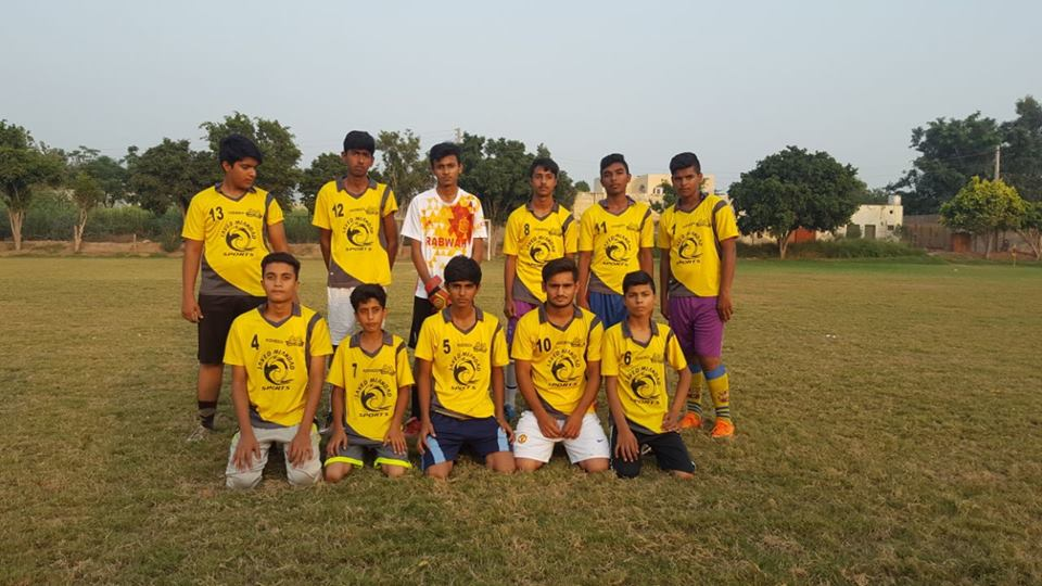 Yaman Soccer League 1 winner Team Tafreed Ahmad (c) with his team.